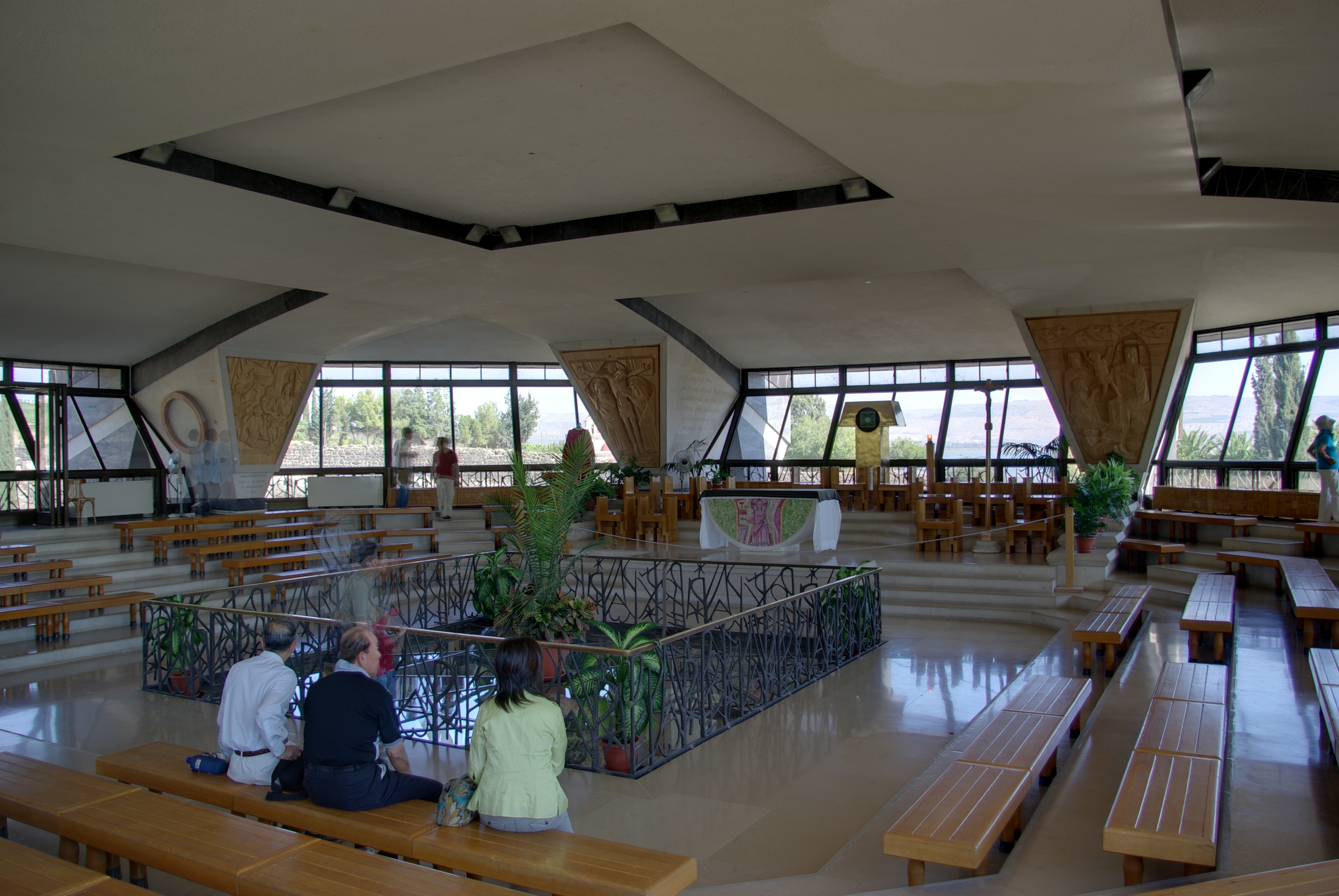 Church over the house of Petrus